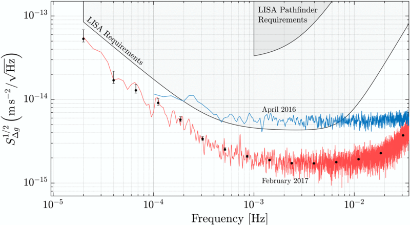 Analysis of the LISA Pathfinder mission results towards the end of the mission (red line) compared with the first results published shortly after the spacecraft began science operations (blue line). The vertical axis is residual relative acceleration of the test masses. The initial requirements (top, wedge-shaped area) and that of the future gravitational-wave observatory LISA (middle, striped area) are included for comparison, and show that LISA Pathfinder far exceeded expectations.